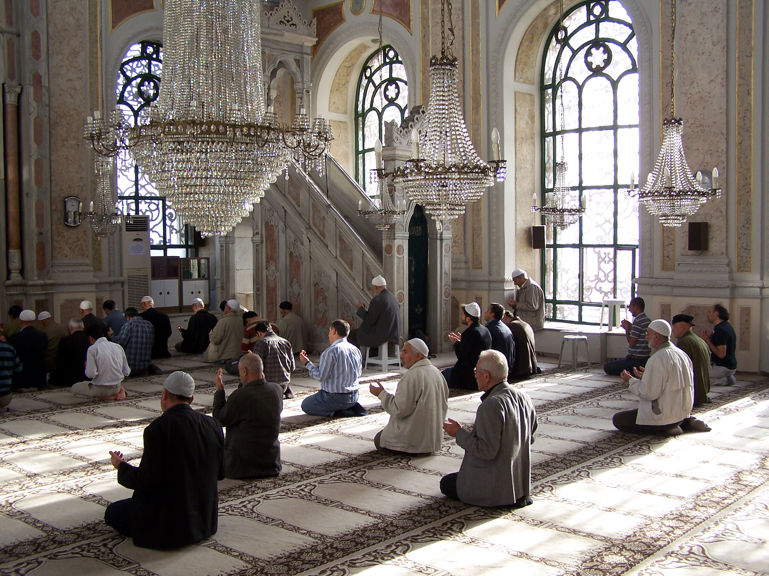 Believers during prayers in Büyük Mecidiye Camii (Ortaköy Camii)